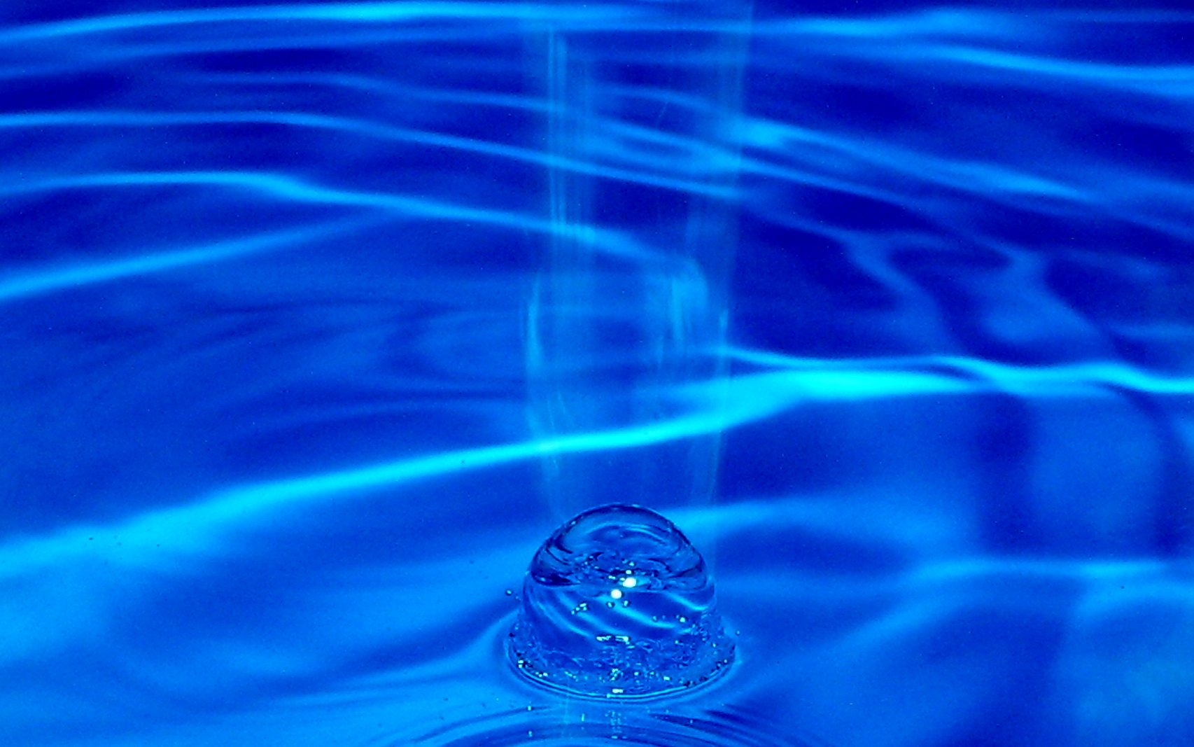 Impact of a water drop